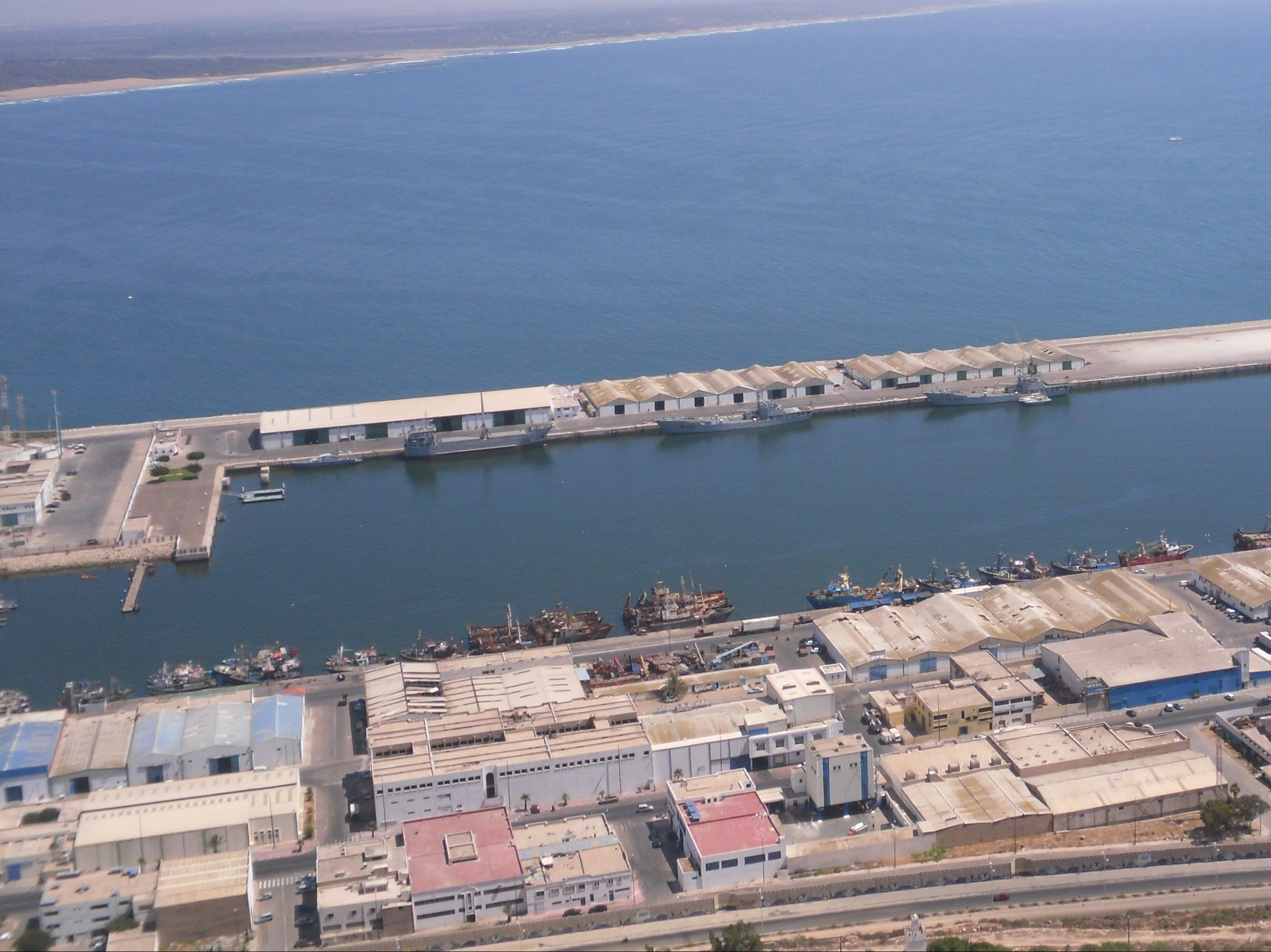 port of Agadir